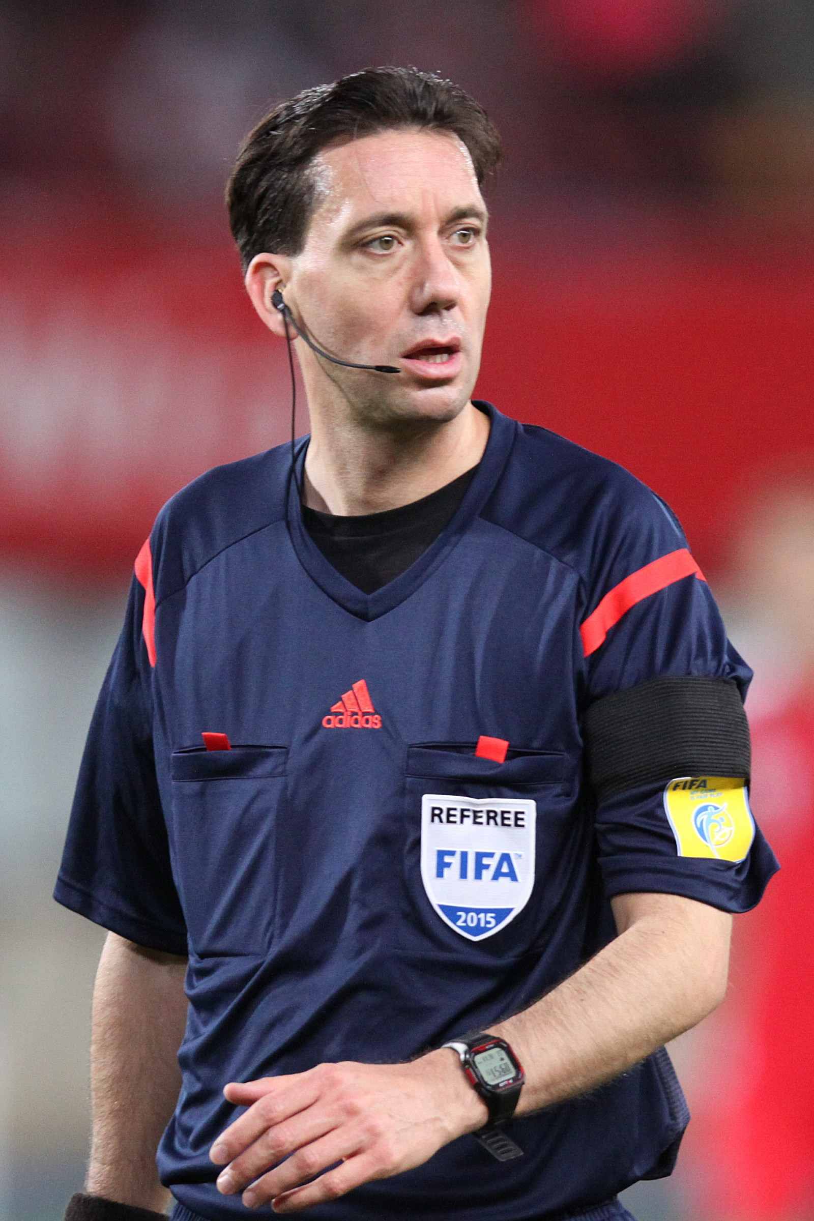 Friendly match – Austria (red shirts) vs. Switzerland (white shirts) 1-2 (1-2) – 2015-11-17 in Vienna, Ernst-Happel-Stadion – The photo shows referee Manuel Gräfe (Germany).